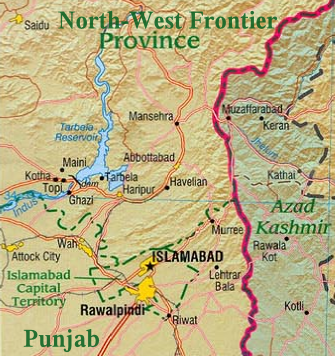 Kashmir Region 2004 Source URL: [1].